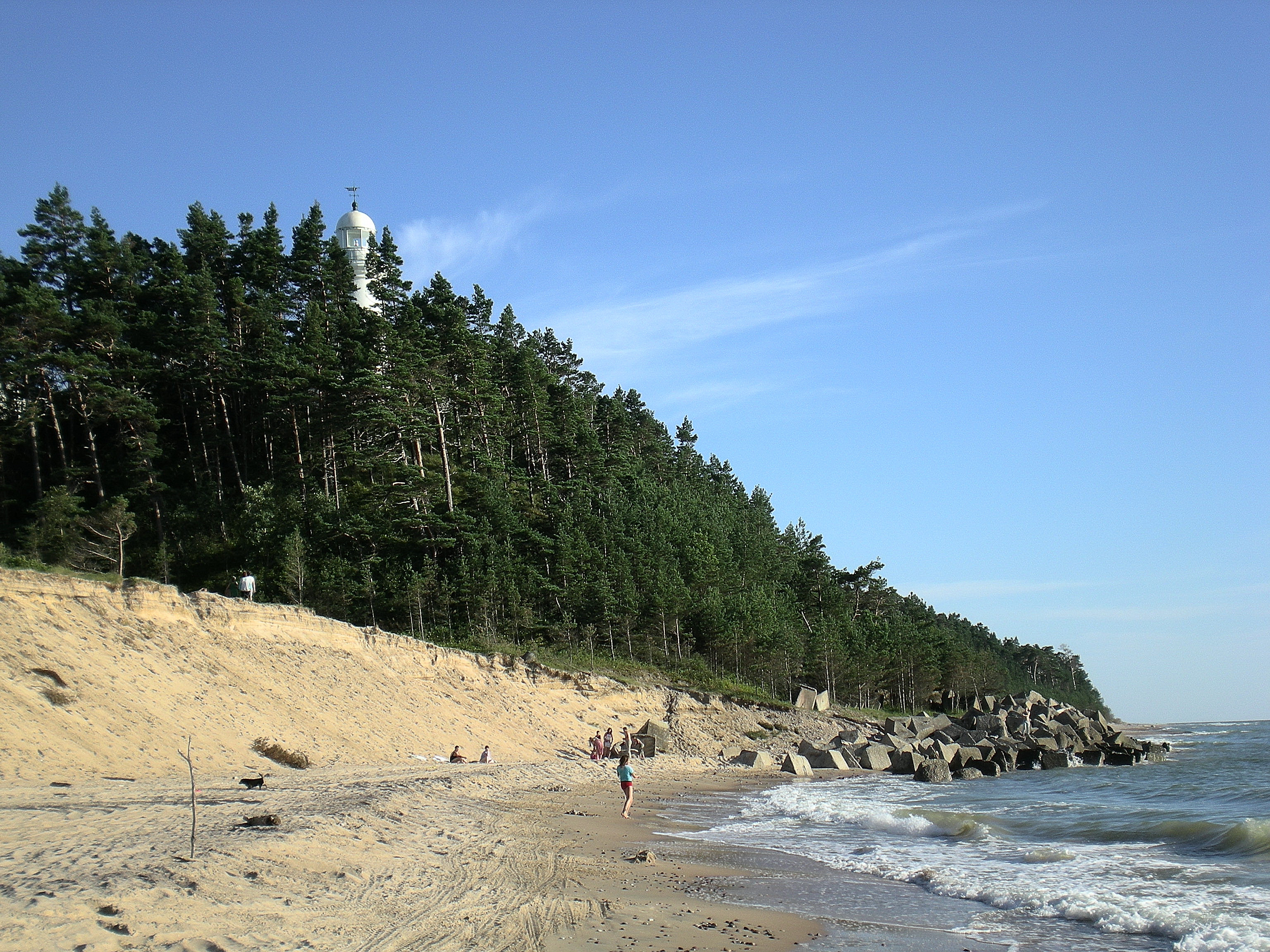 Uzava lighthouse